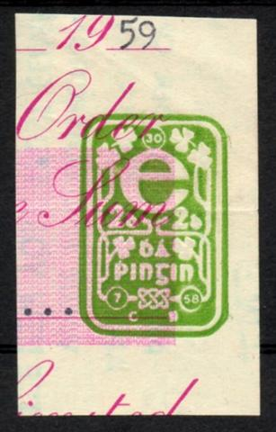 Ireland Impressed Duty Stamp used on a 1959 cheque.